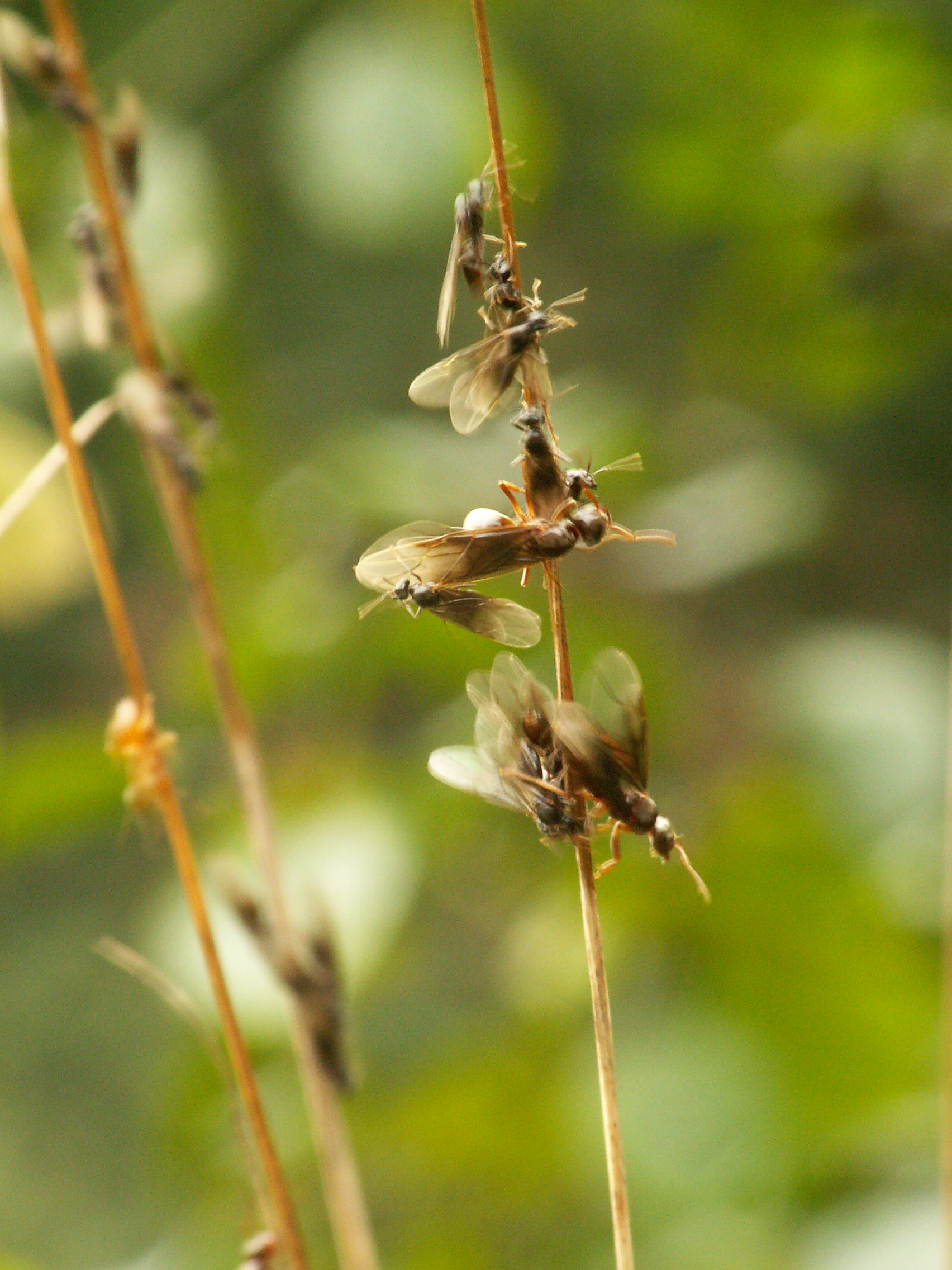 Ants in the early evening taking of on the bridal flight Veluwe, The Netherlands